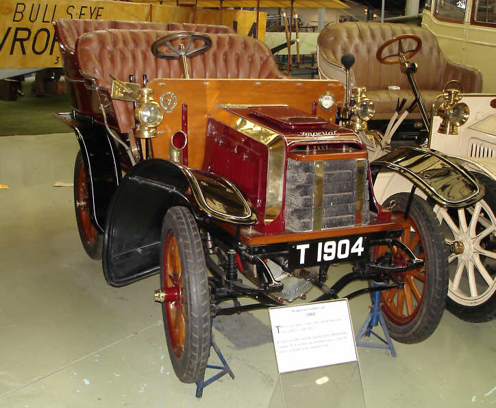 The 1904 Imperial car in the Manchester Museum of Science and Industry (Photograph by myself in May 2006).